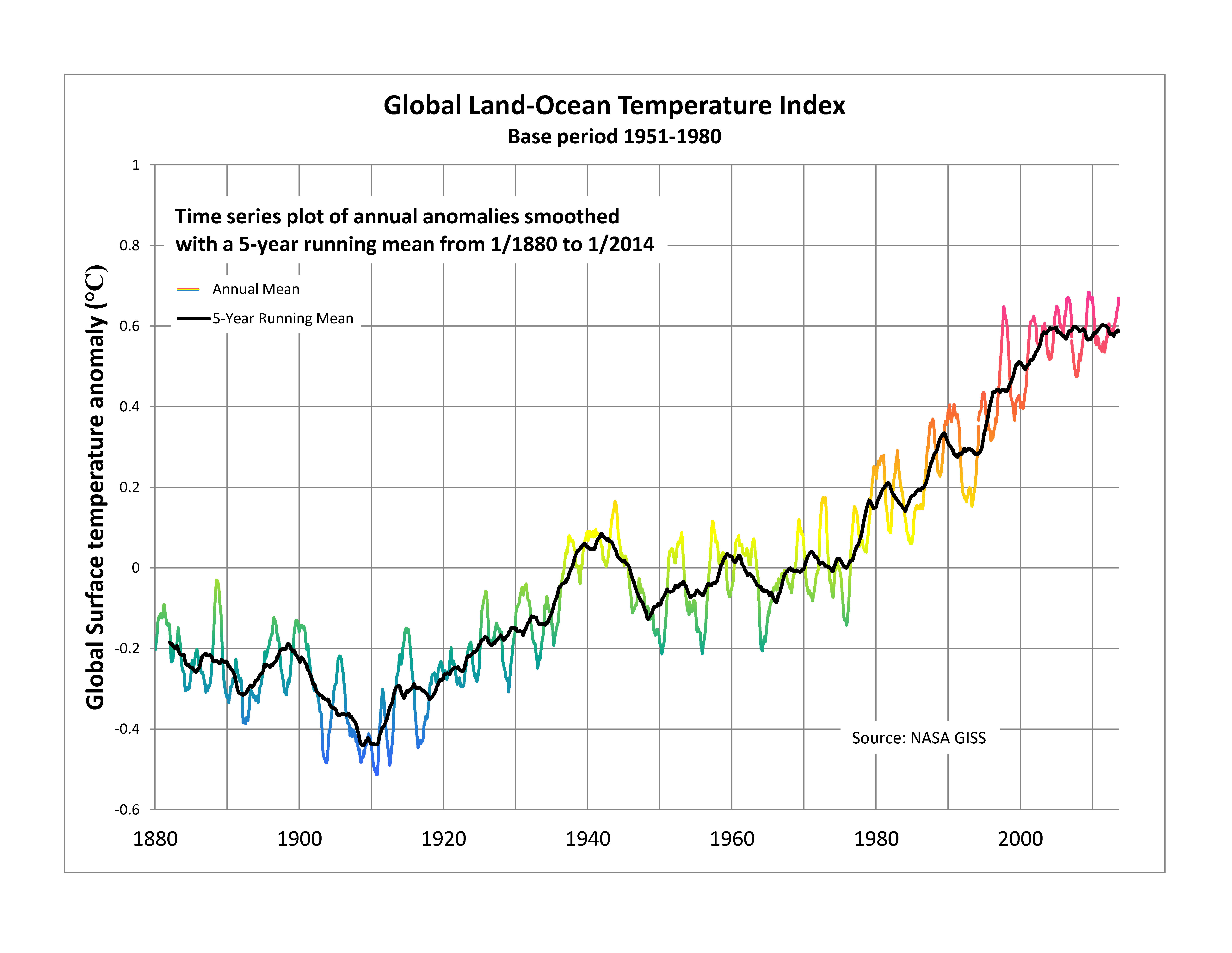 GISS data using yearly average